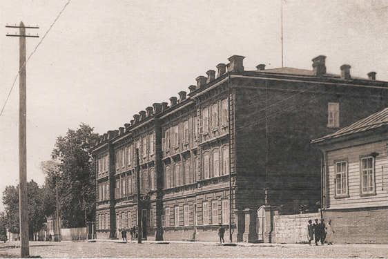 BashSU, UFA